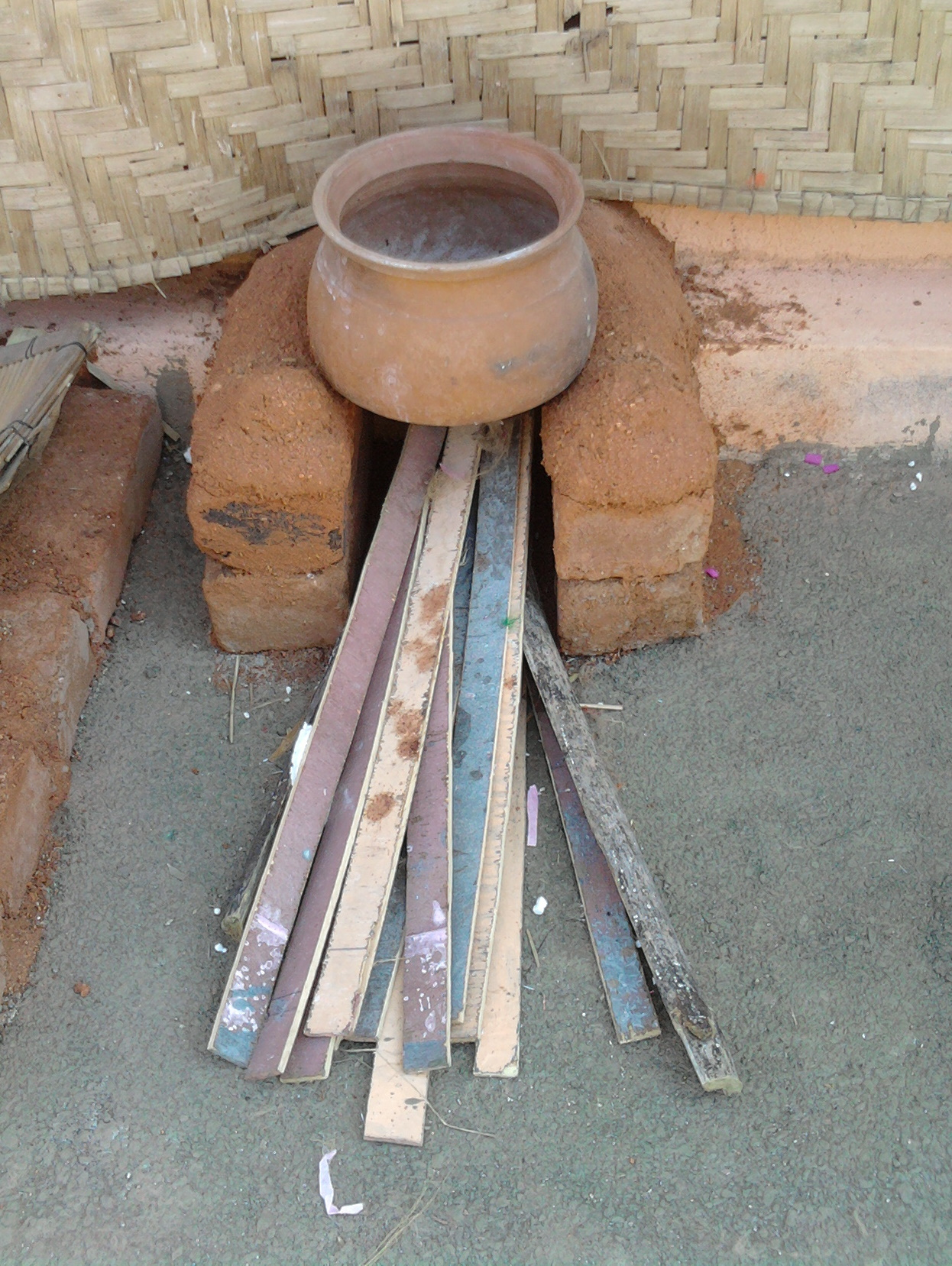 its name kattela poyyi in telugu. it is old cookking stove.